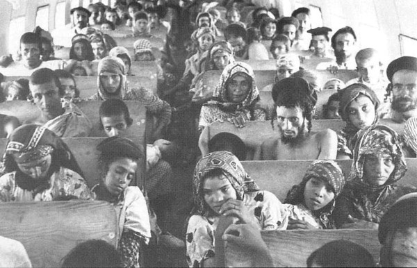 In the course of the operation "Magic Carpet" (1949-1950), the entire community of Yemenite Jews (called Teimanim, about 49,000) immigrated to Israel. Most of them had never seen an airplane before, but they believed in the Biblical prophecy: according to the Book of Isaiah (40:31), God promised to return children of Israel to Zion "on wings of eagles".